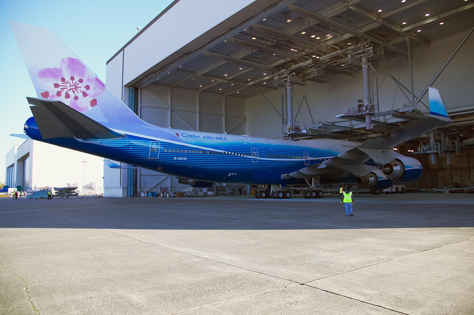 A Boeing 747 belonging to China Airlines in maintenance hangar.